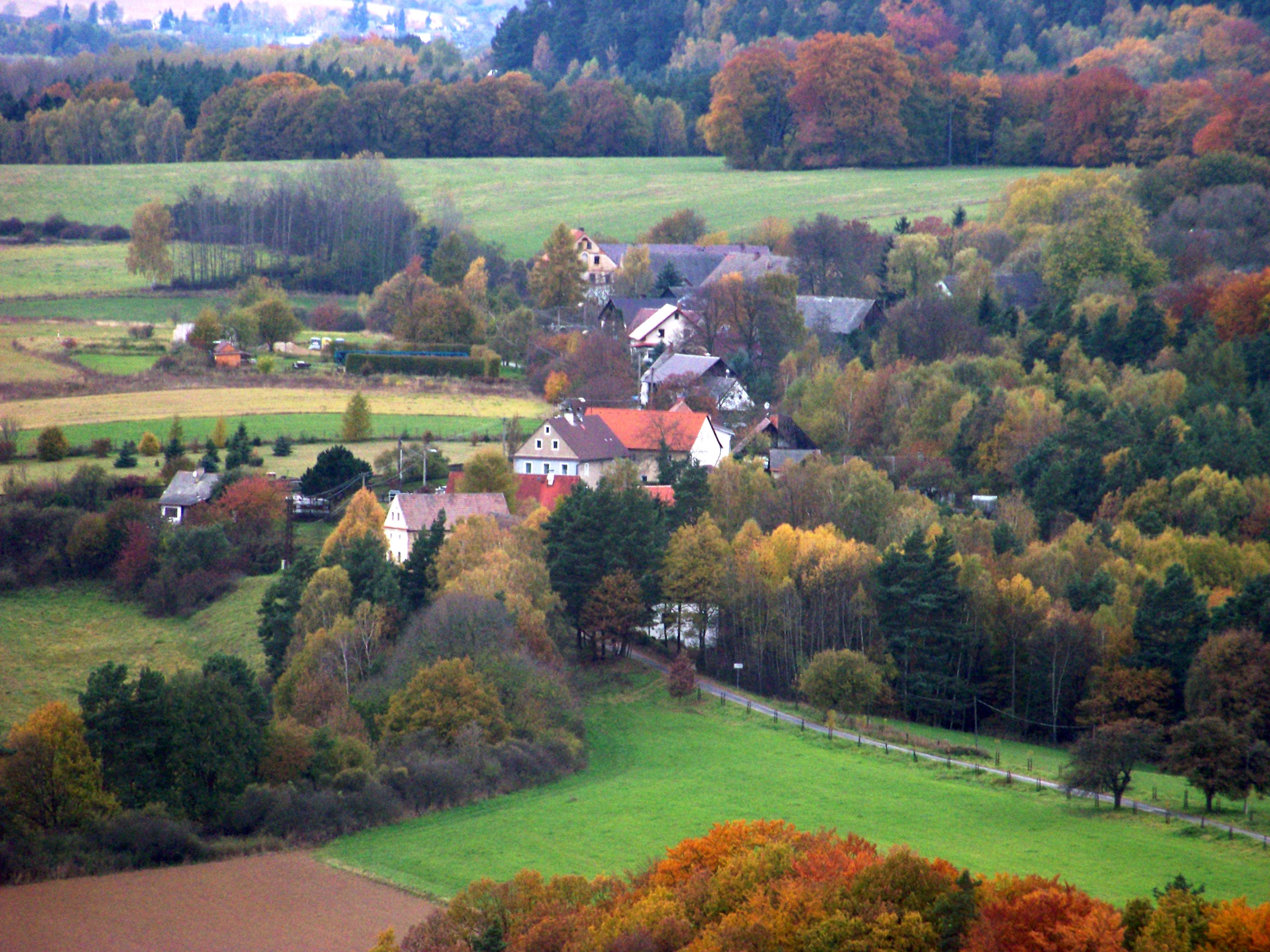 A view from the top floor of Houska Castle, Česká Lípa District, Liberec Region, the Czech Republic. Blatce.